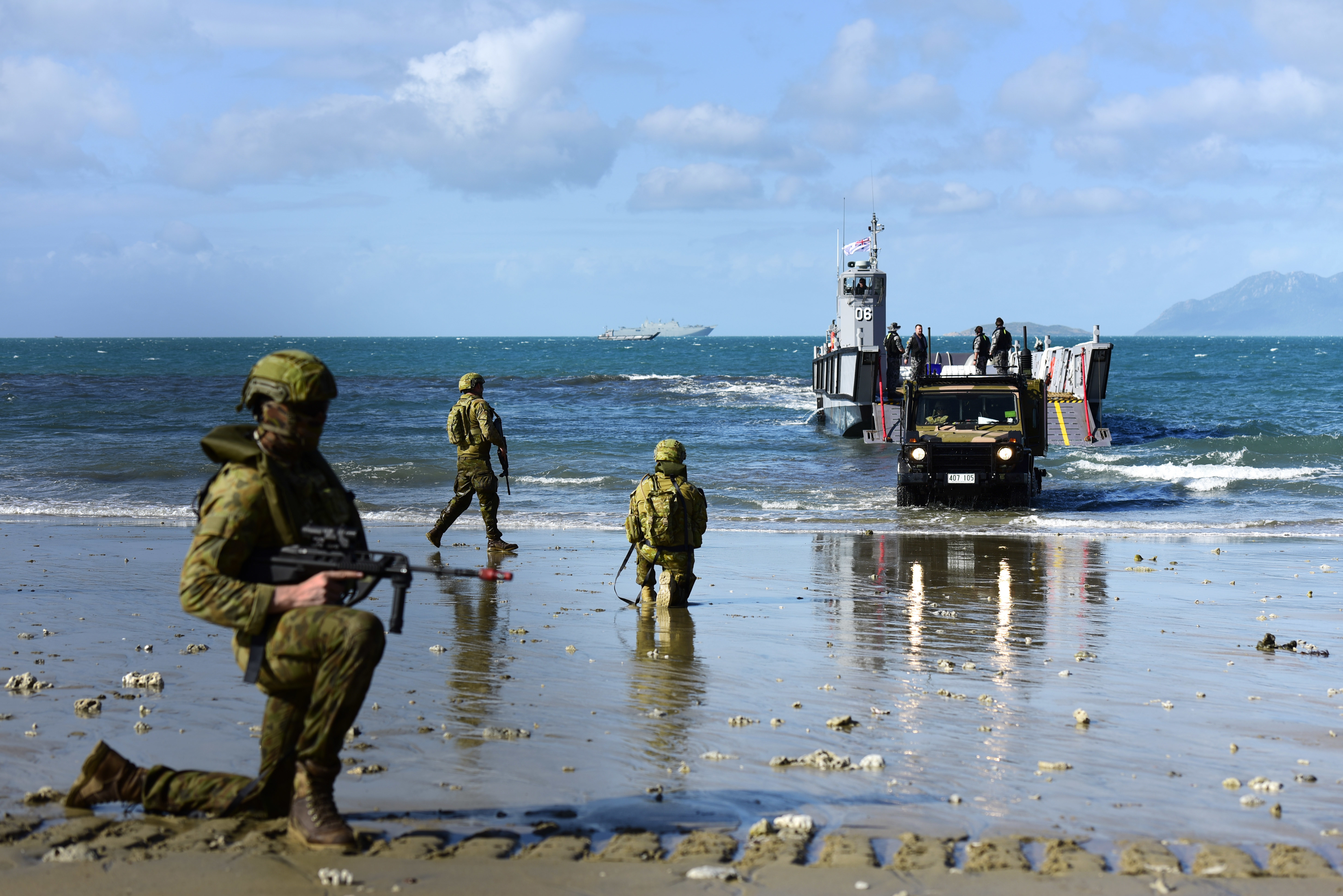 The Australian Defence Force provide security for a G-Wagon to come to shore via a LCM-1E Landing Craft as part of Exercise Horizon in Bowen, Queensland, May 28, 2018. U.S Marines from Marine Rotational Force – Darwin are working with the Australian Amphibious Task Group during the Exercise Sea Series. The Series consists of command exercises, infantry sea routines and culminates with an amphibious assault.